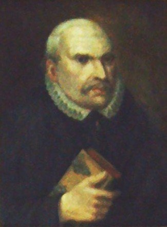 Portrait of the German Reformator Hermann Tast